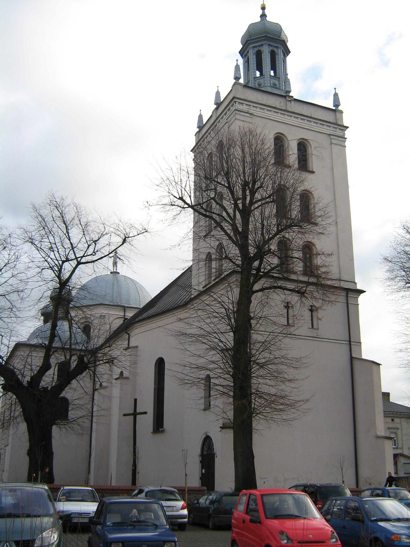 The parish church in Grodzisk Wielkopolski